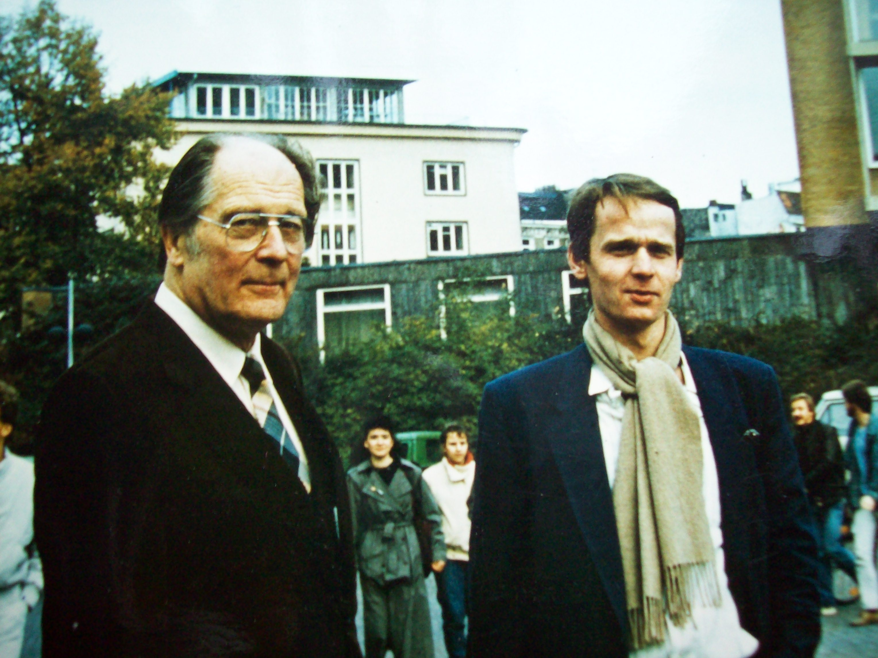 Picture of the Estonian writer Jaan Kross and the German translater Cornelius Hasselblatt, October 1985, at the campus of the University of Hamburg